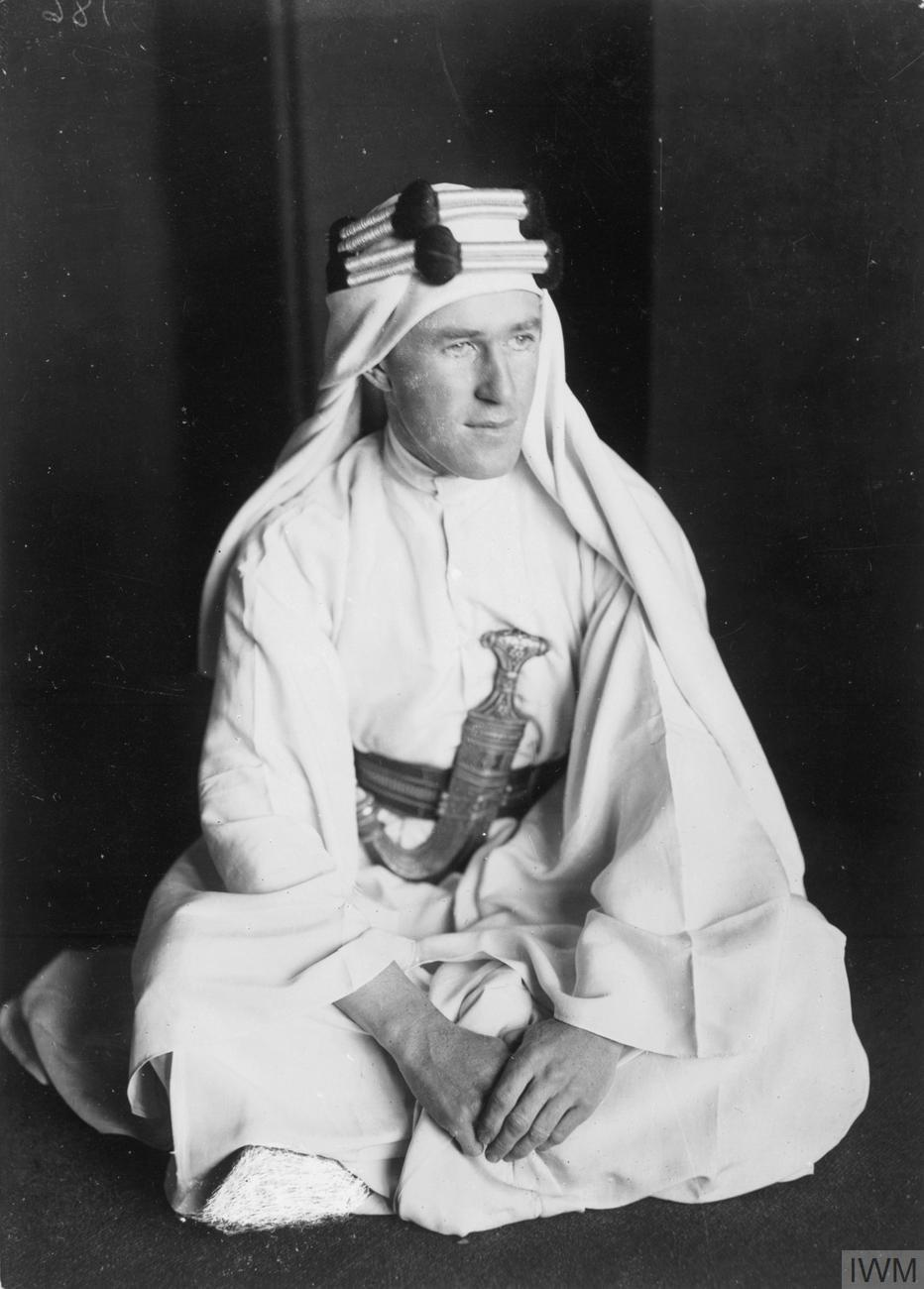 T E Lawrence 1888-1935 Lawrence in Arab dress seated on the ground.